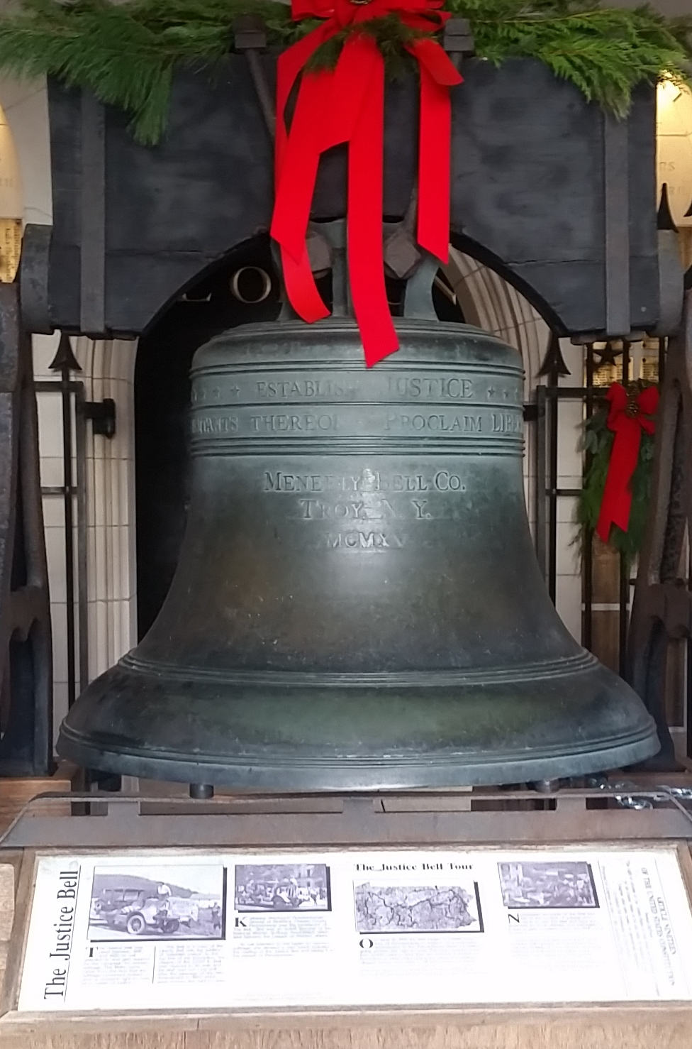 A replica of the Liberty Bell, created to symbolize women's suffrage.